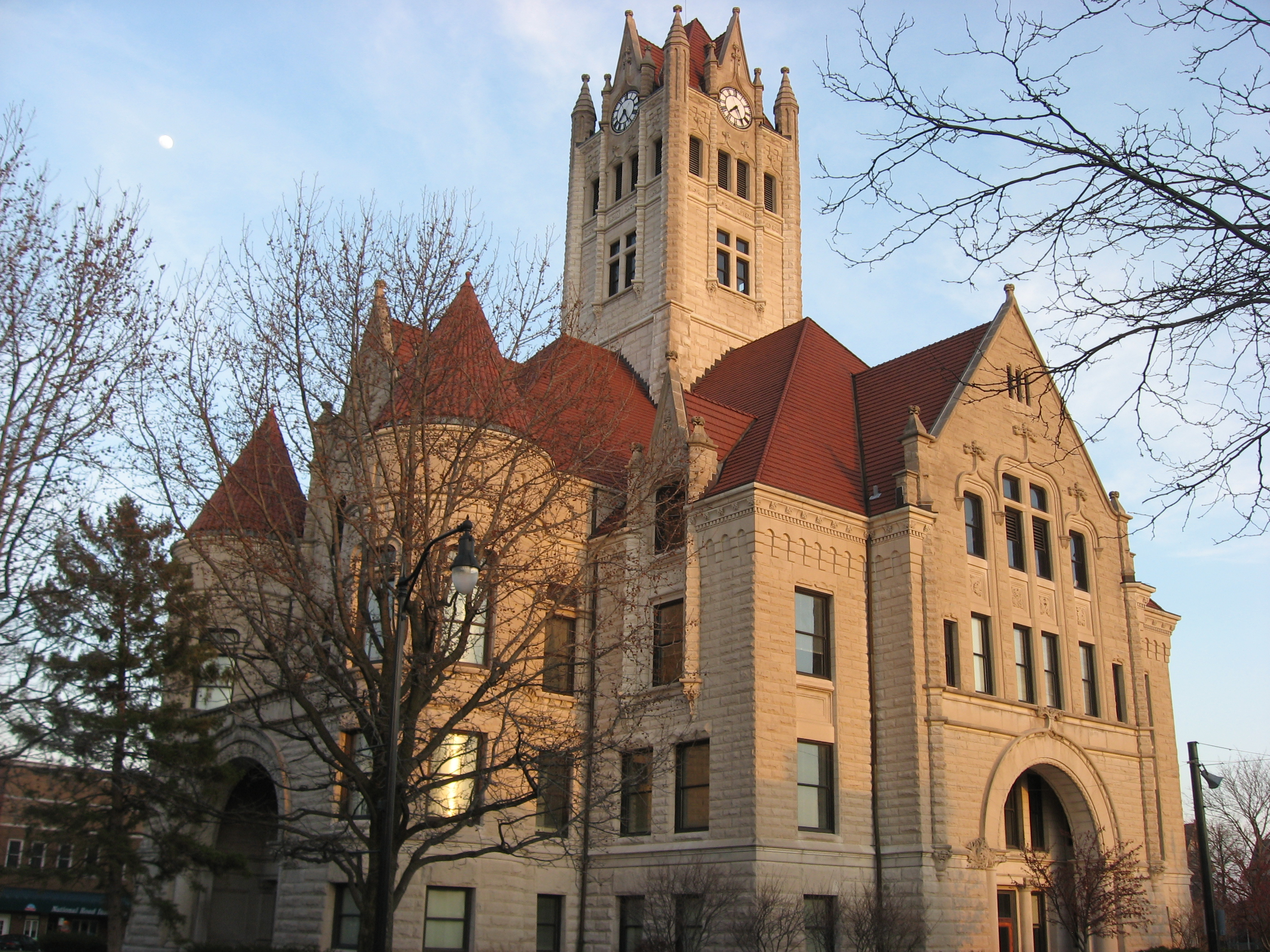 Front of the Hancock County Courthouse, located on Courthouse Square in downtown Greenfield, Indiana, United States. Built in 1897, it is part of the Greenfield Courthouse Square Historic District, a historic district that is listed on the National Register of Historic Places.